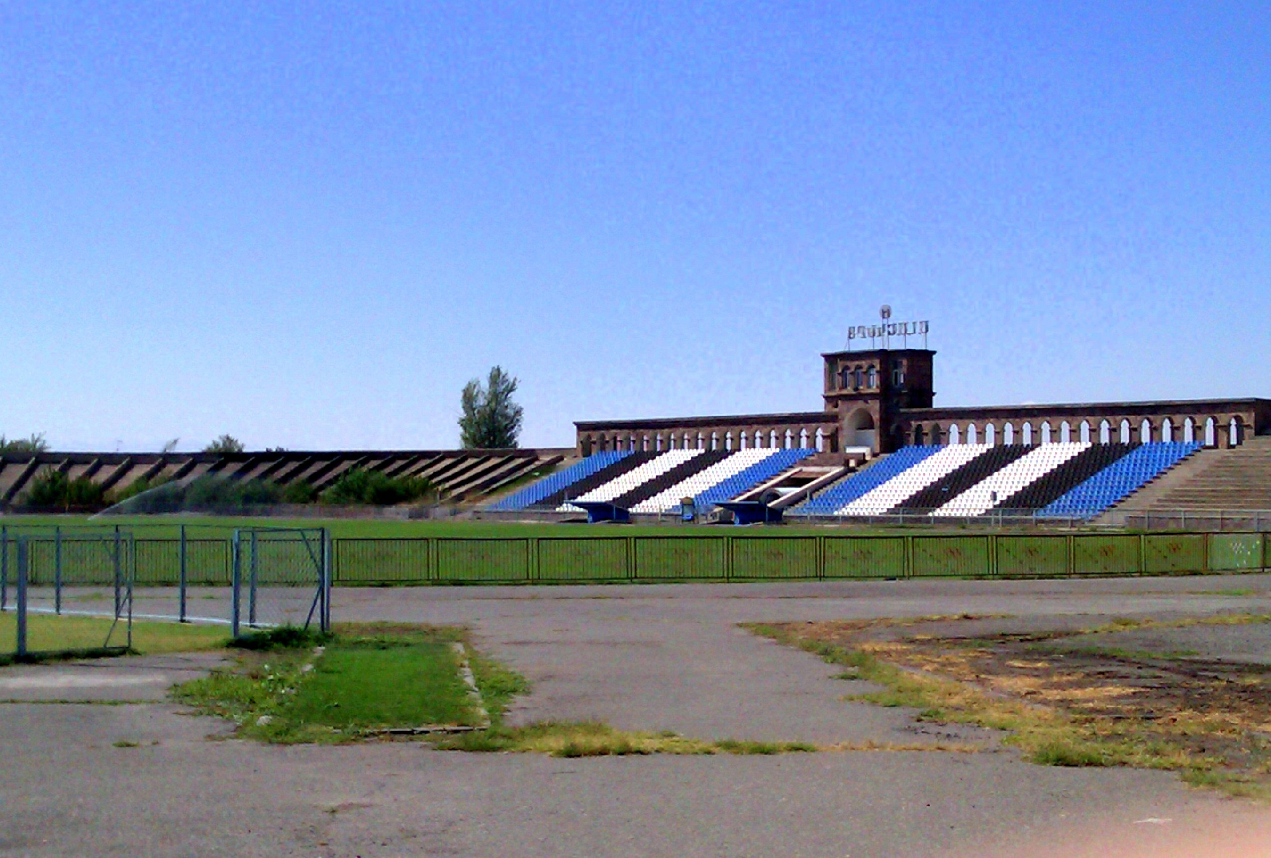 Nairi Stadium, Yerevan, Armenia.